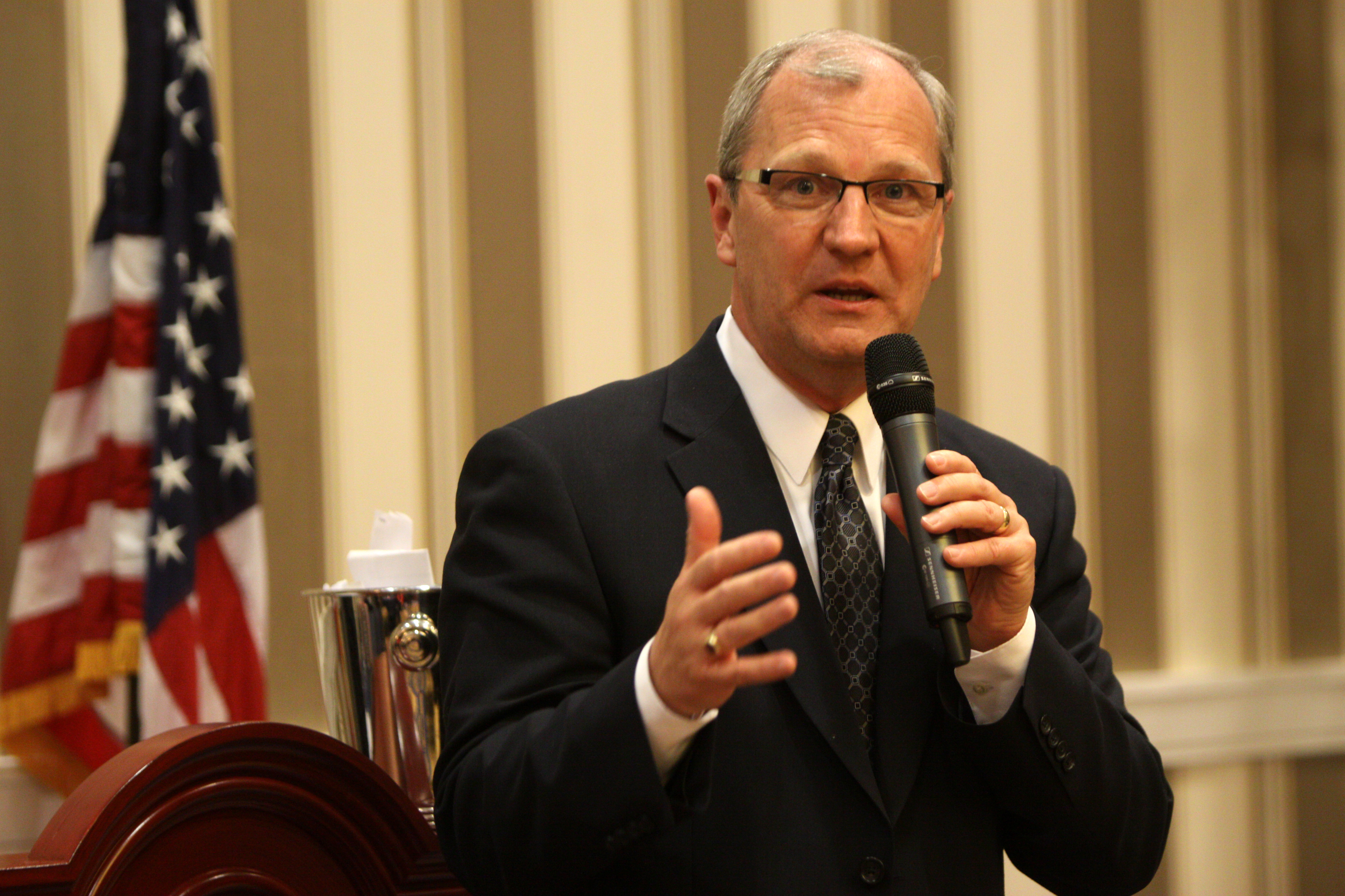 Congressman Kevin Cramer of North Dakota speaking at the 2013 Conservative Political Action Conference (CPAC) in National Harbor, Maryland.